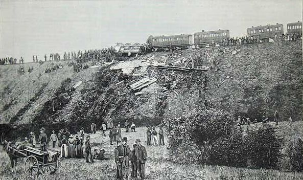 Edited version of a contemporary photograph of the aftermath of the Armagh disaster